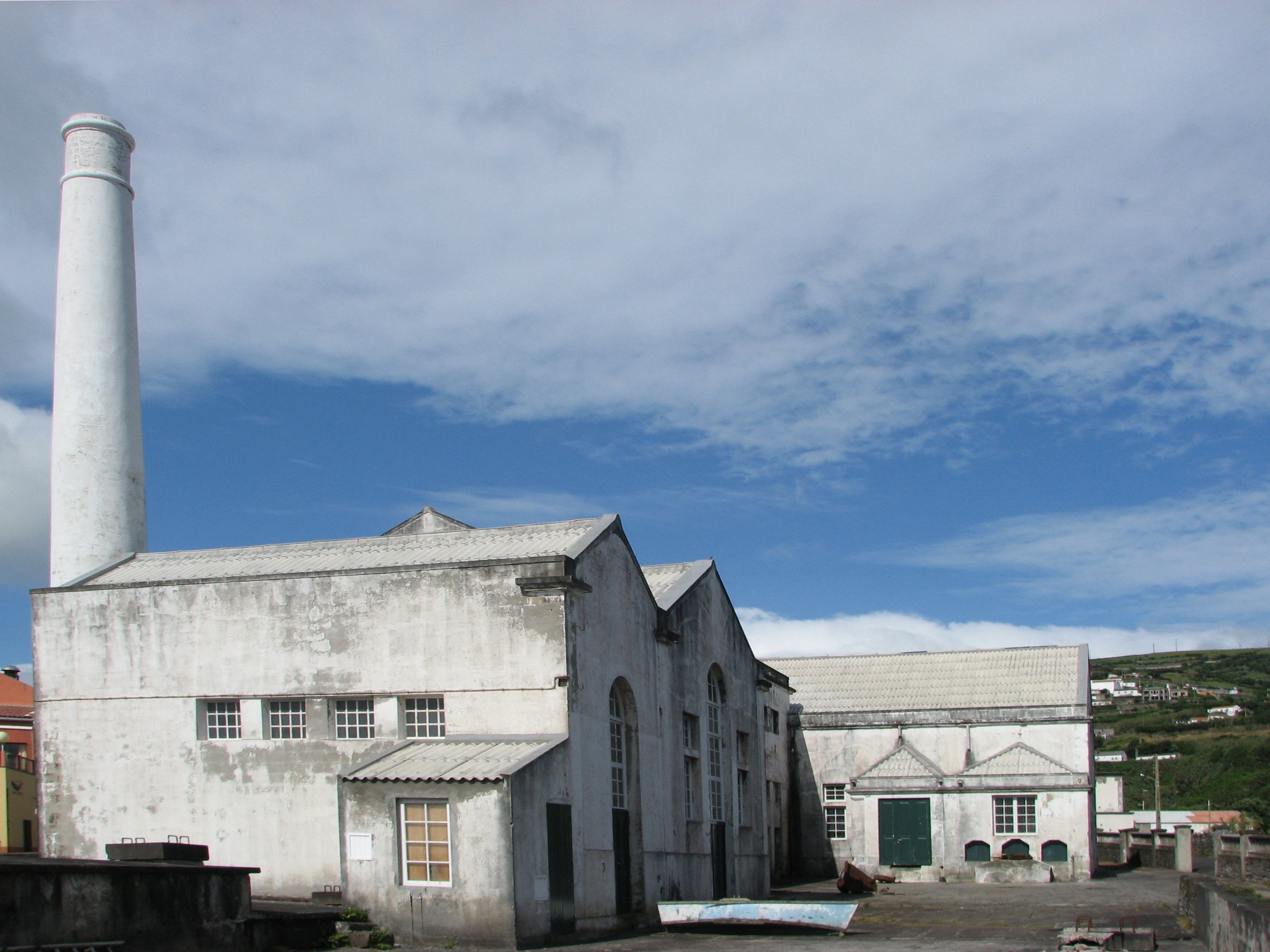 The old whaling factory of Boqueirão, Santa cruz das Flores, Azores.